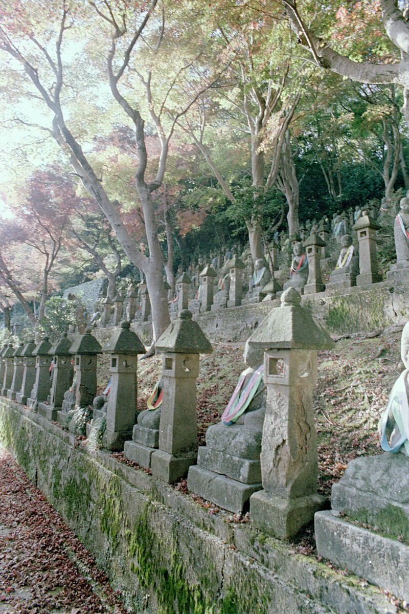 A picture of the five hundred stone buddhas, called "Gohyaku-rakan" in Choukei-ji temple, Japan.